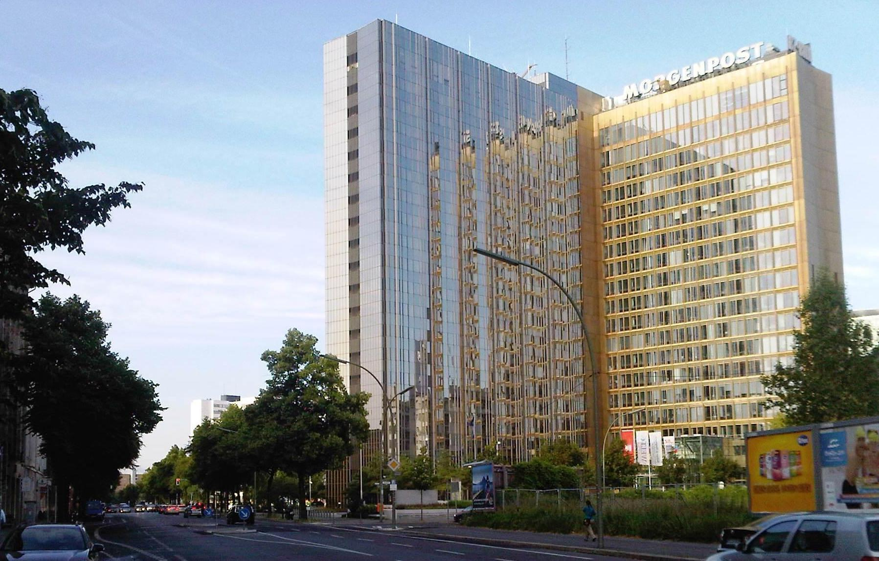 Axel-Springer-Strasse with the Axel Springer building in Berlin (July 2011)